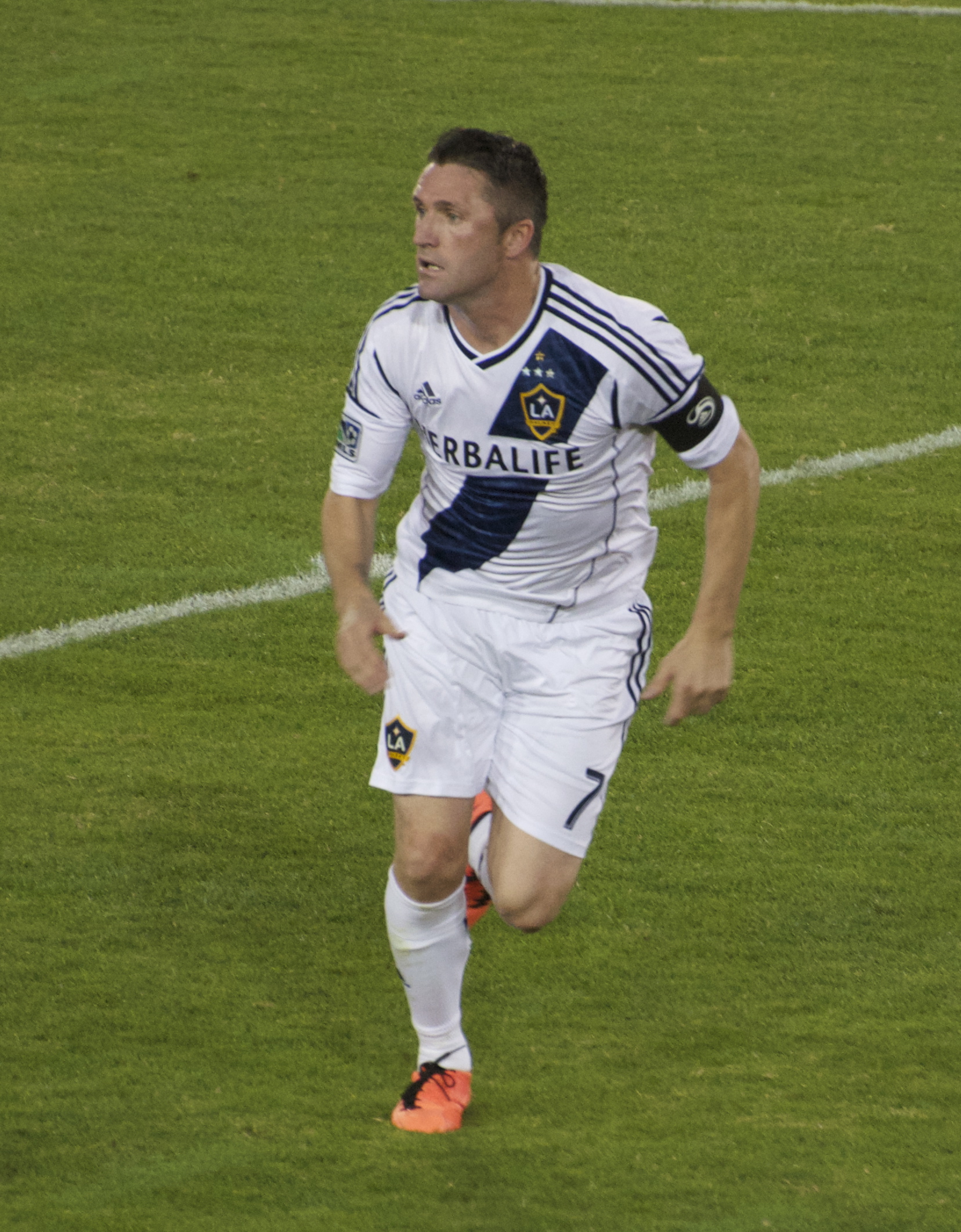 Robbie Keane, Stanford Stadium, LA Galaxy vs SJ Earthquakes, Saturday 2013-06-29